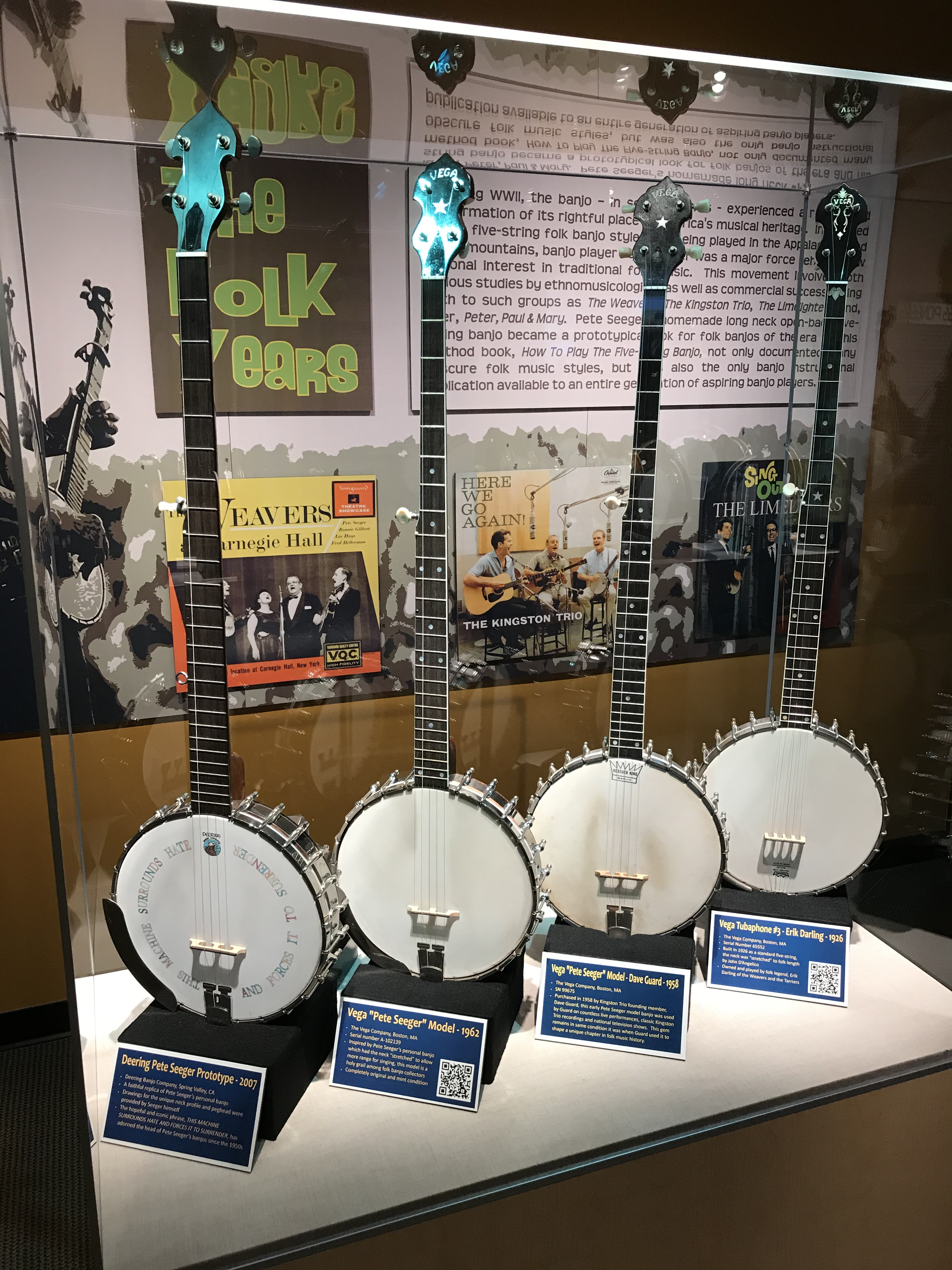 Commercial imitations of Pete Seeger’s modified banjo, on display at the American Banjo Museum.